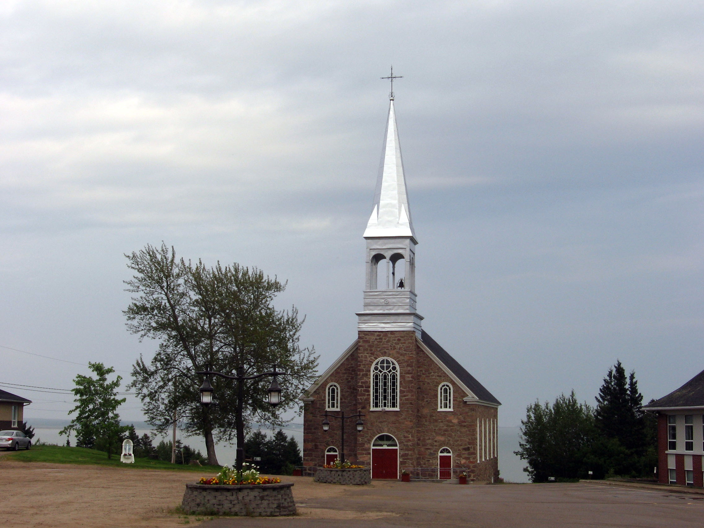 Longue-Rive church